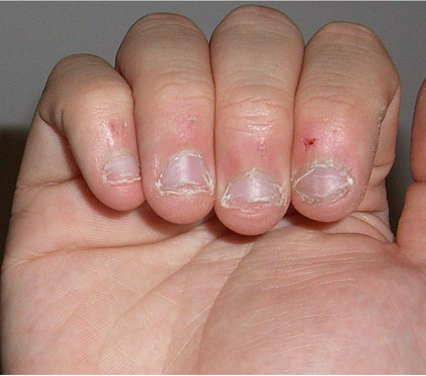 Eugene Foo, using digital camera